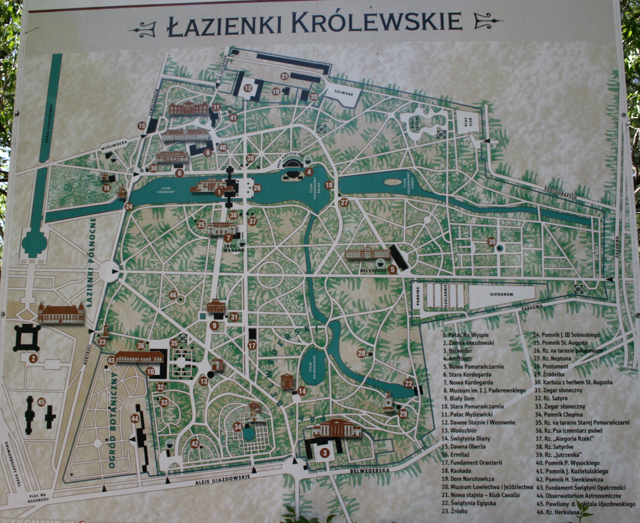 Lazienki Krolewskie in Warsaw - map